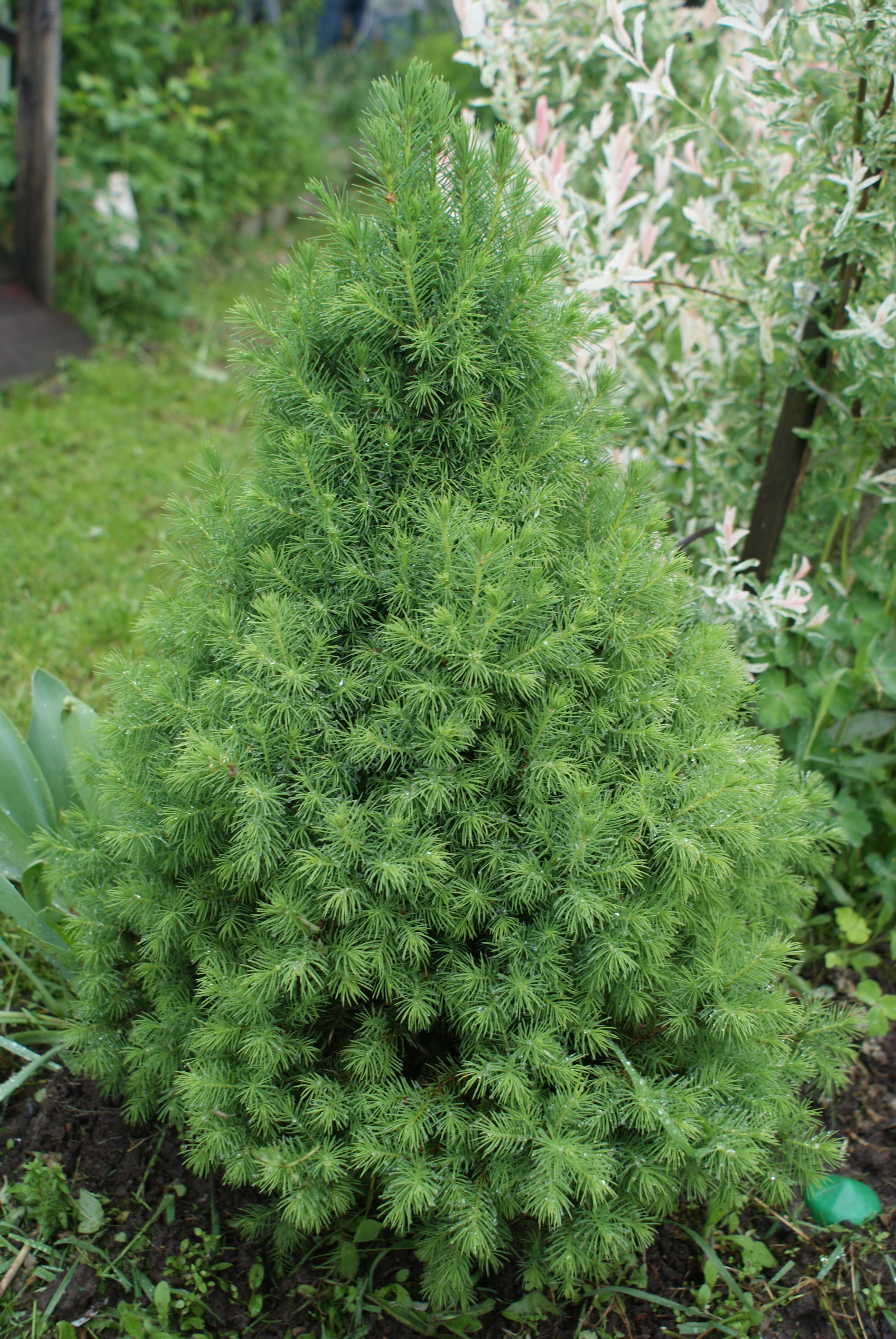 Picea glauca 'Conica' in Barysau district